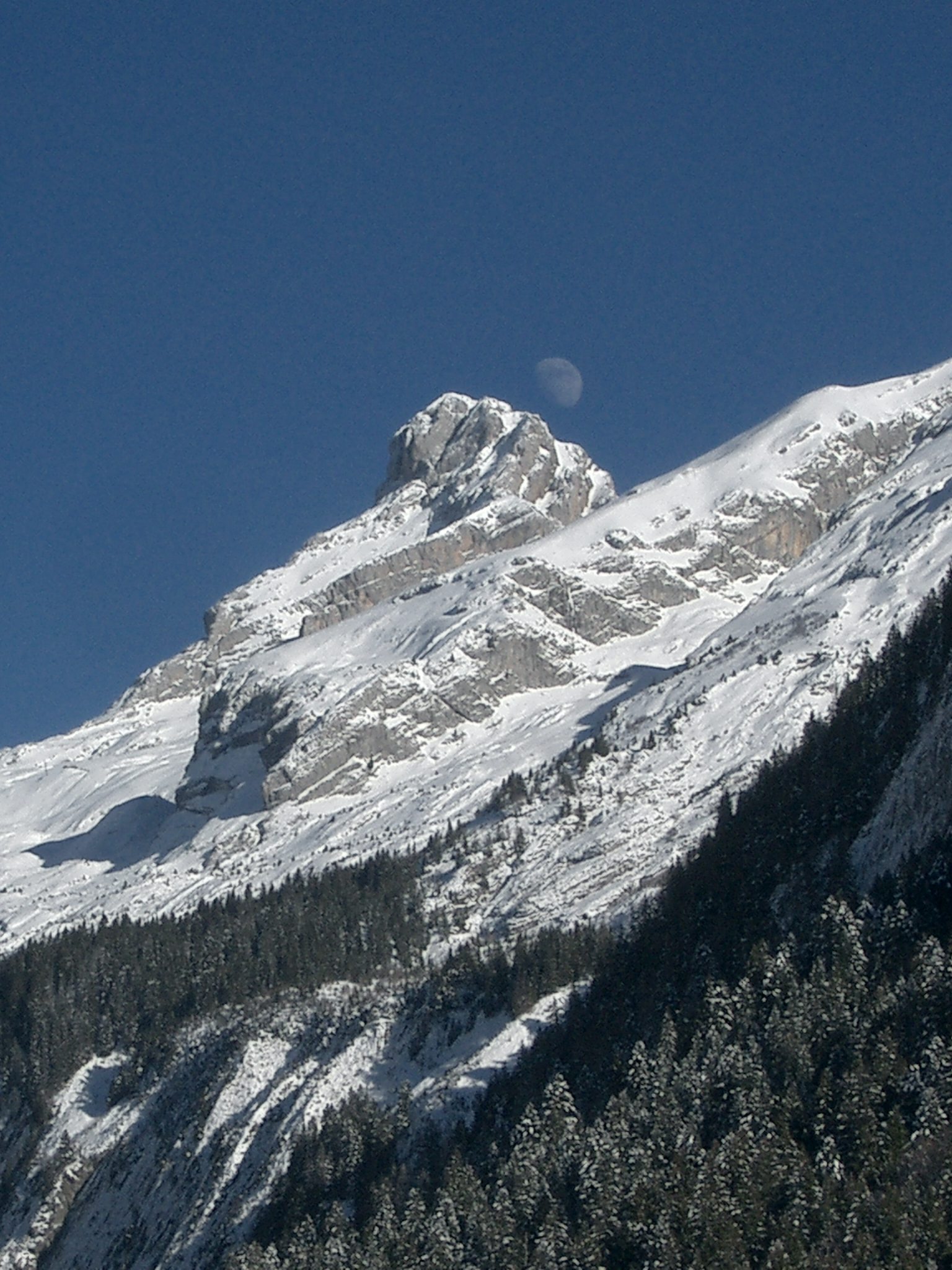 my own photograph